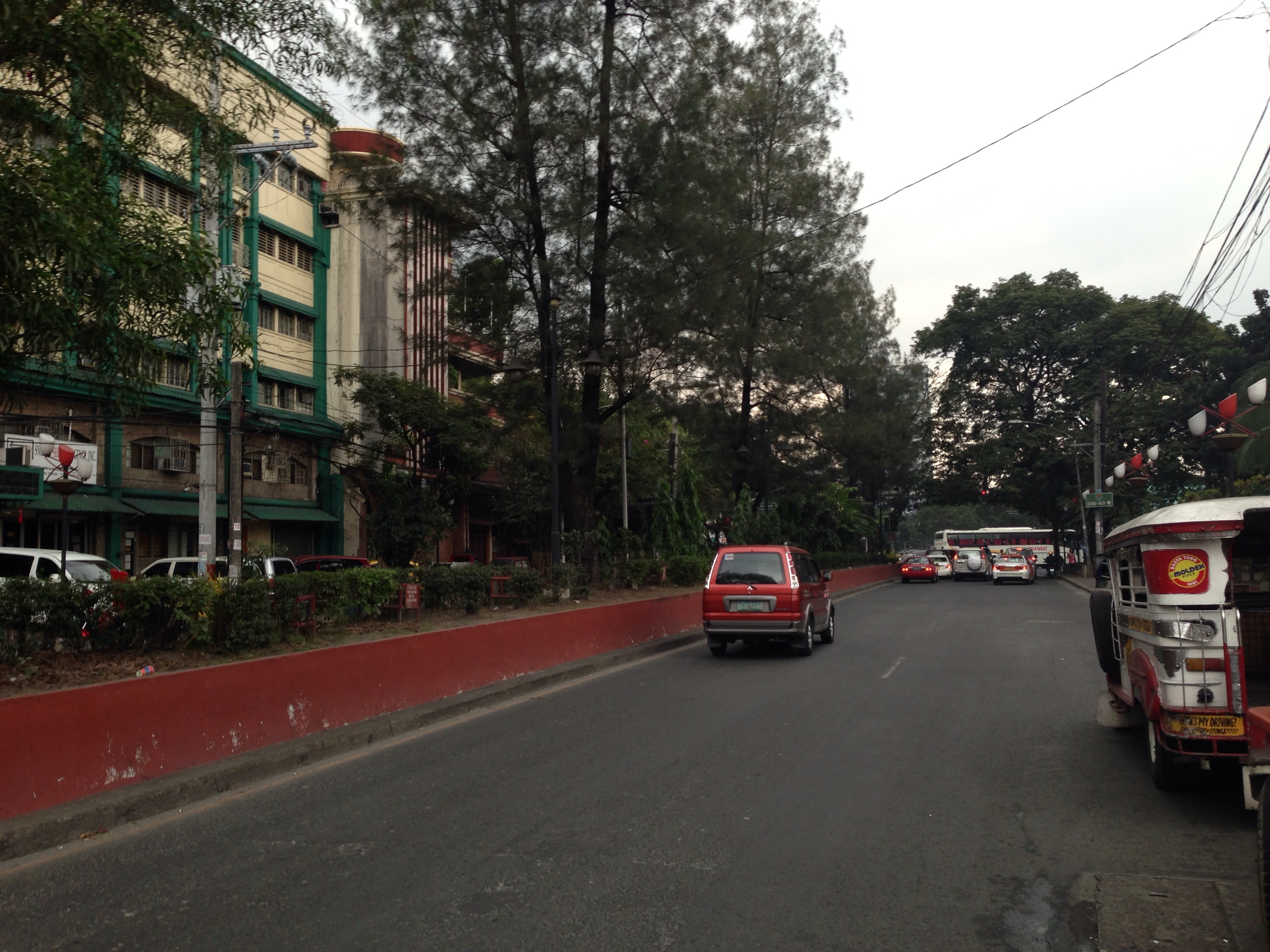 Lacson Avenue (formerly Governor Forbes Street), looking south towards Maria Clara Street, Sampaloc, Manila